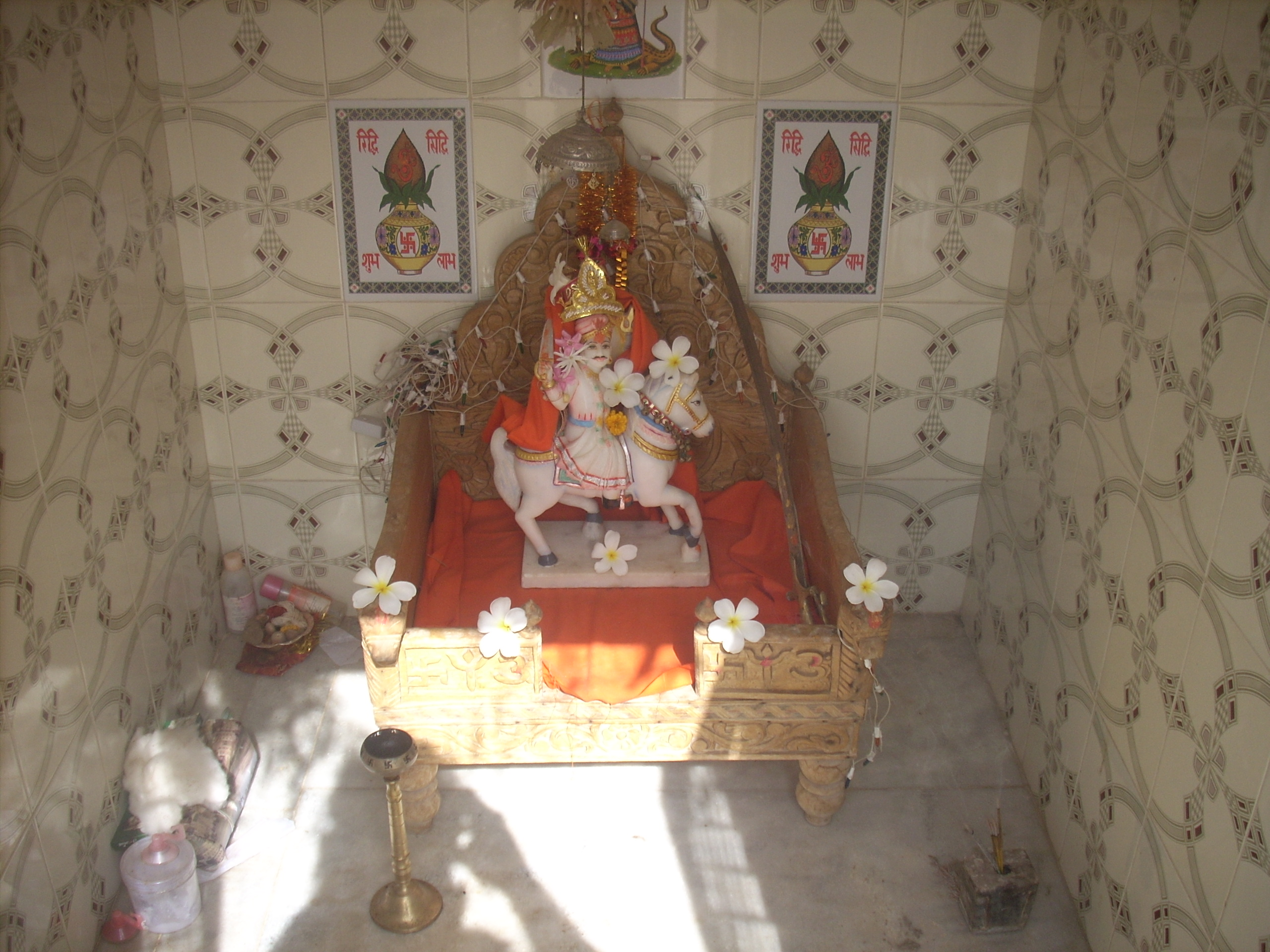 A small idol of Vachra Dada at a Deri in Kutch.